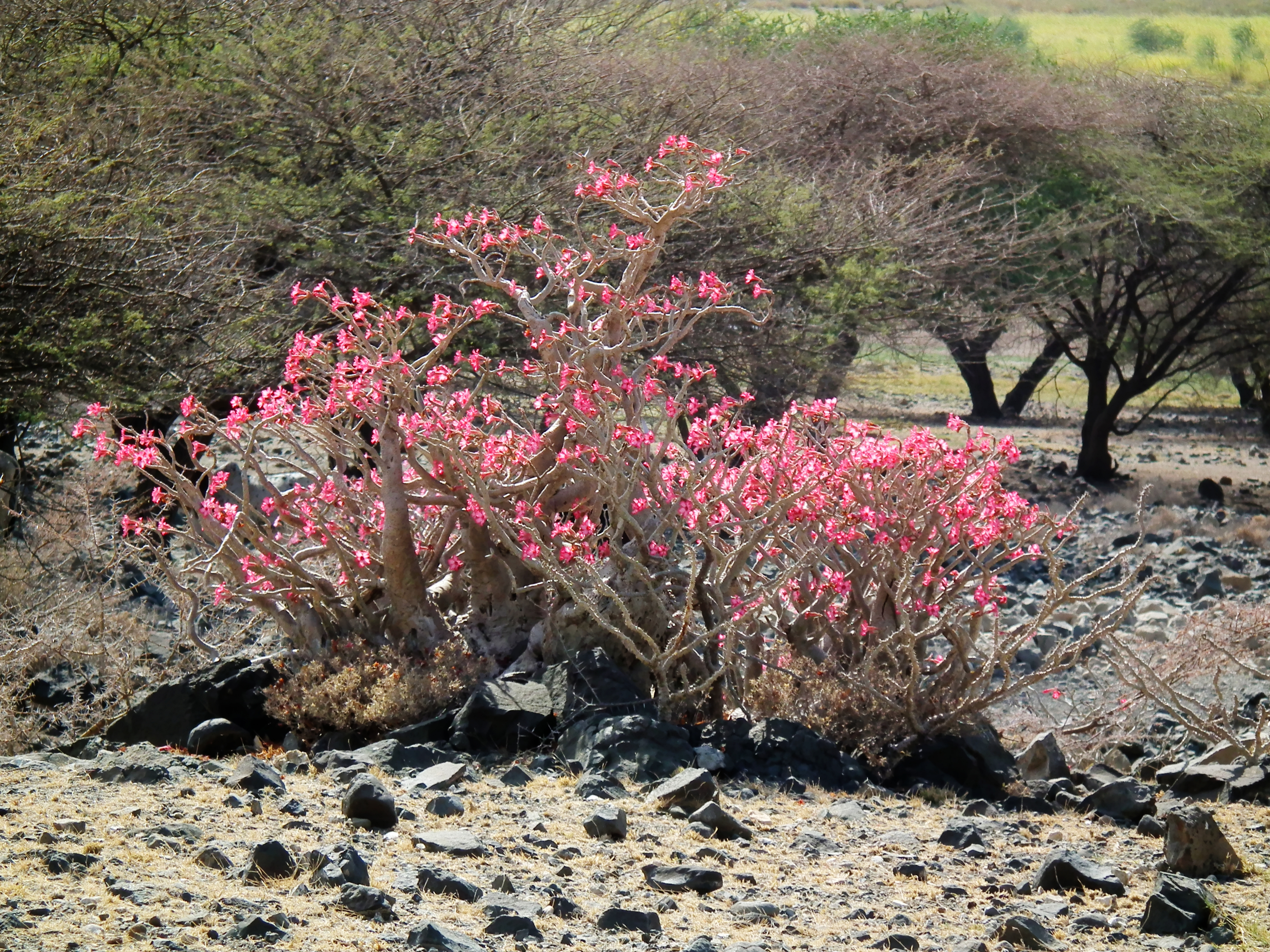 Desert rose, Adenium obesum in Tanzania